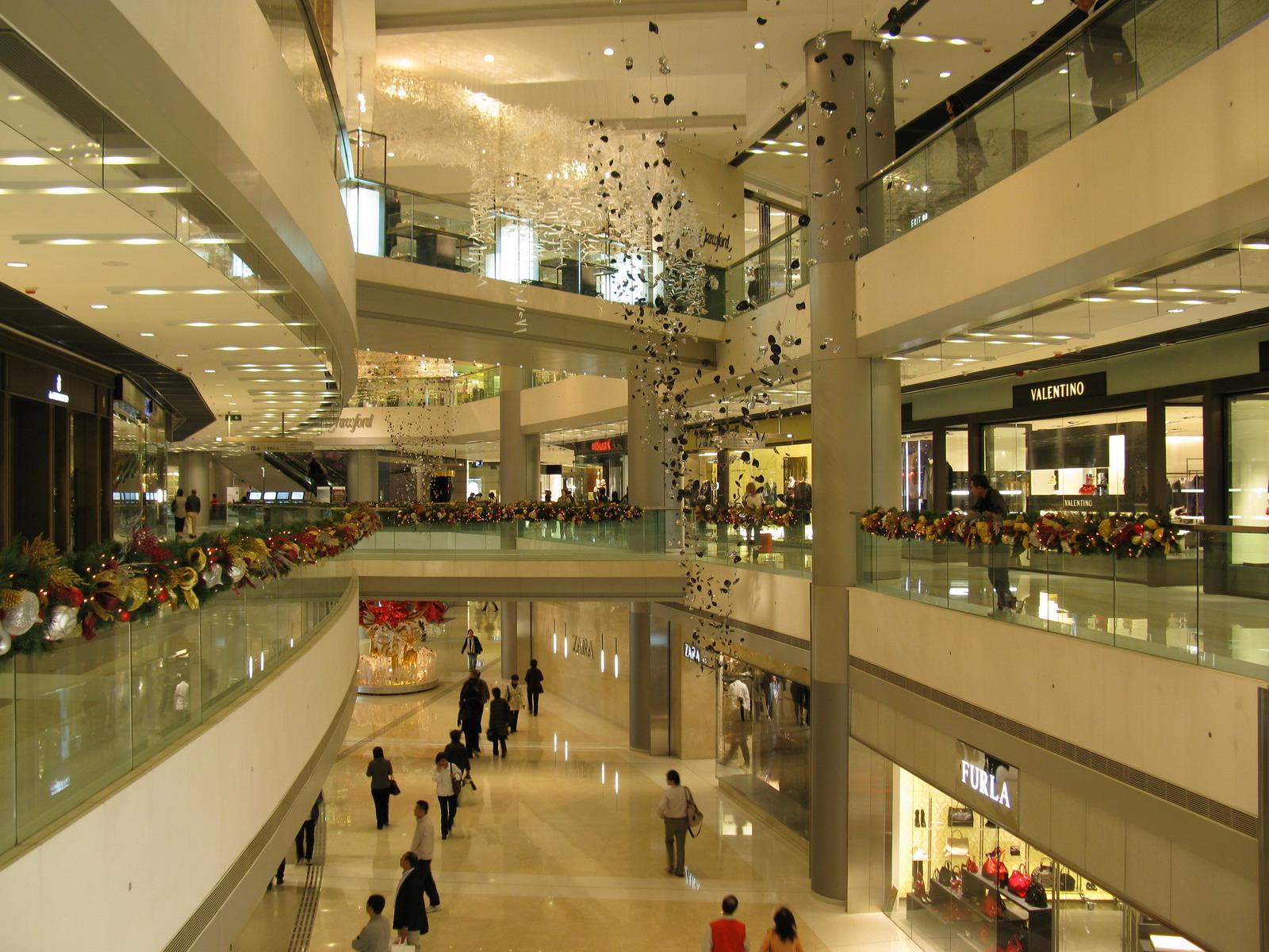 ifc mall